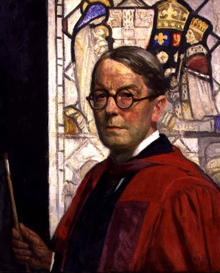 Selfportrait Robert Anning Bell